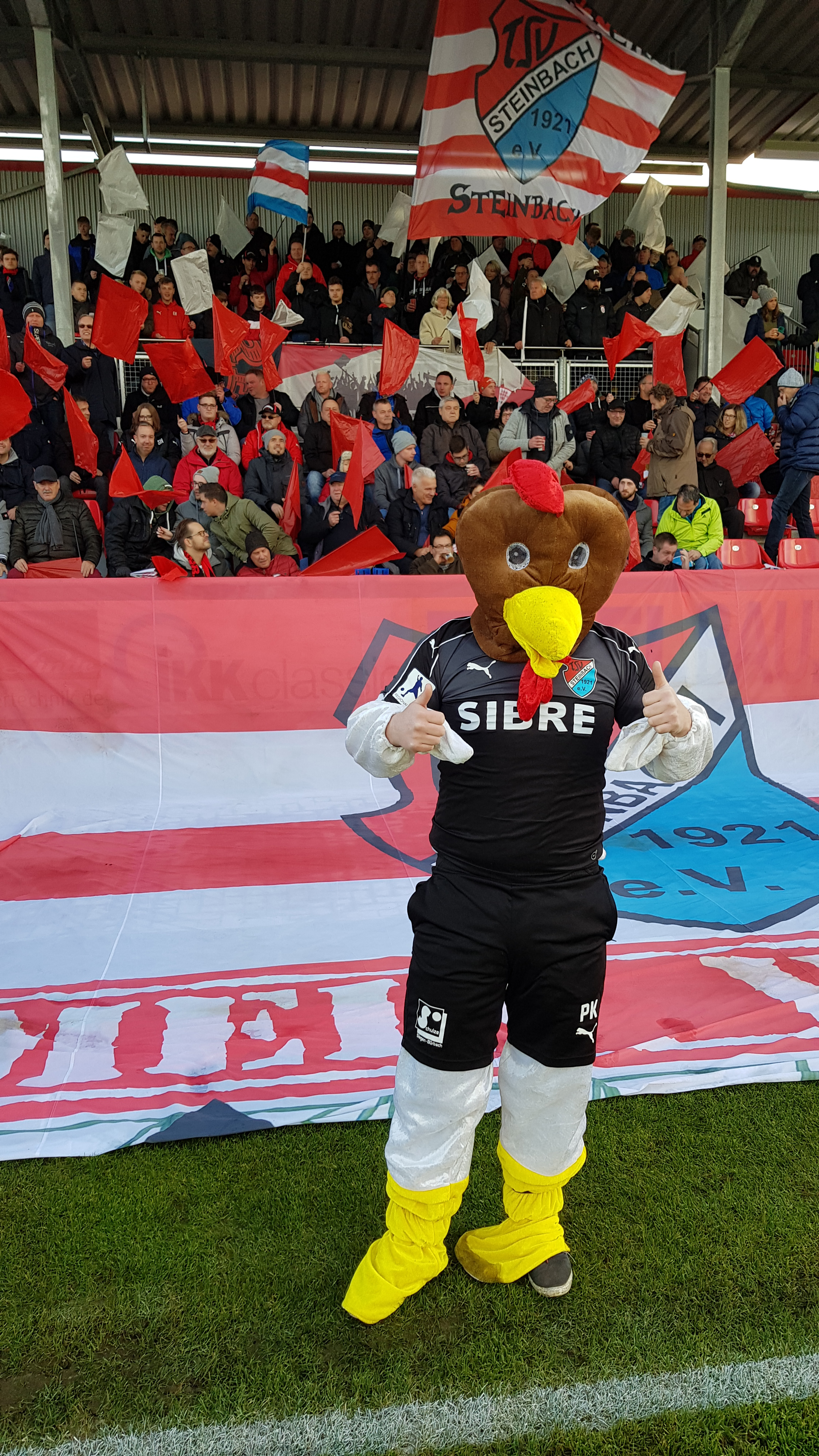 Das Maskottchen „Der Steinbacher Gickel“